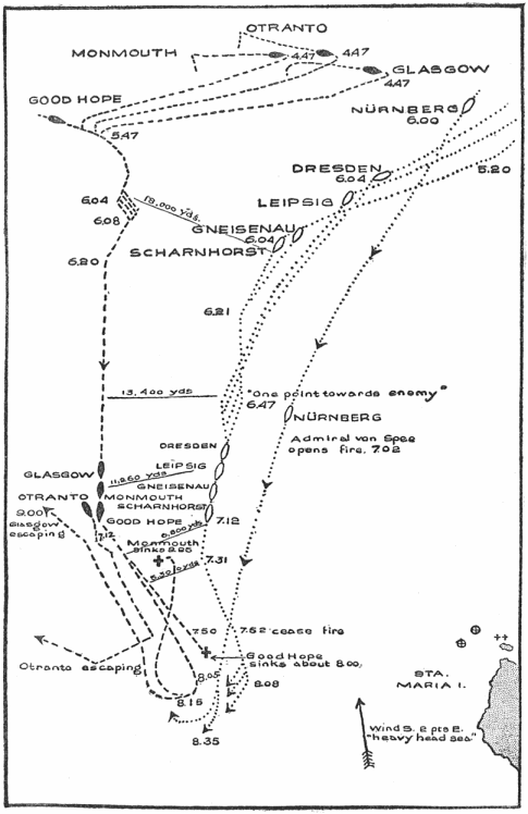 Map showing British and German ships and movements at the Battle of Coronel, 1 November 1914.